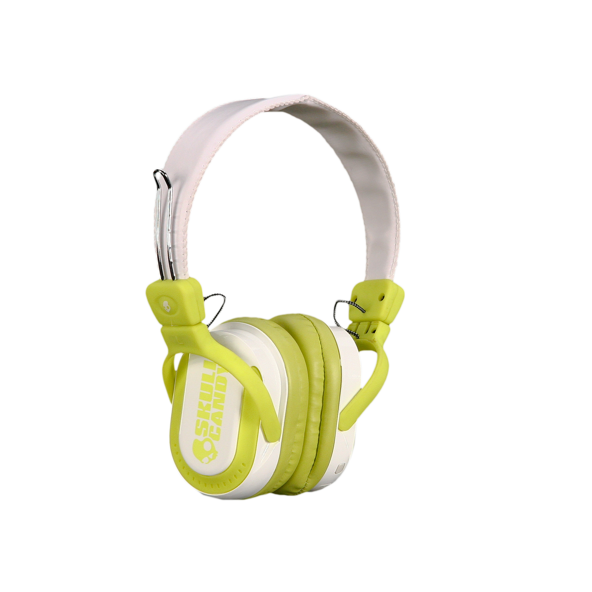 Double Agent headphones by Skullcandy